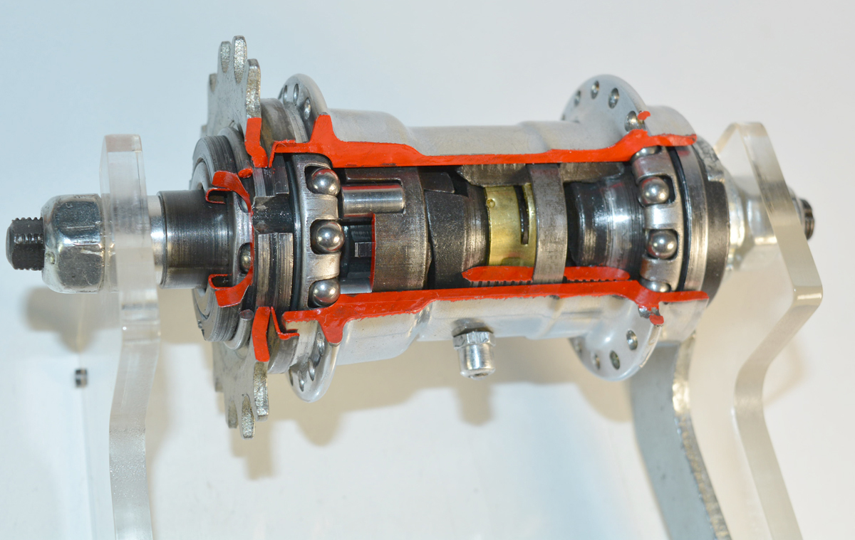 Cutted Torpedo back pedal brake